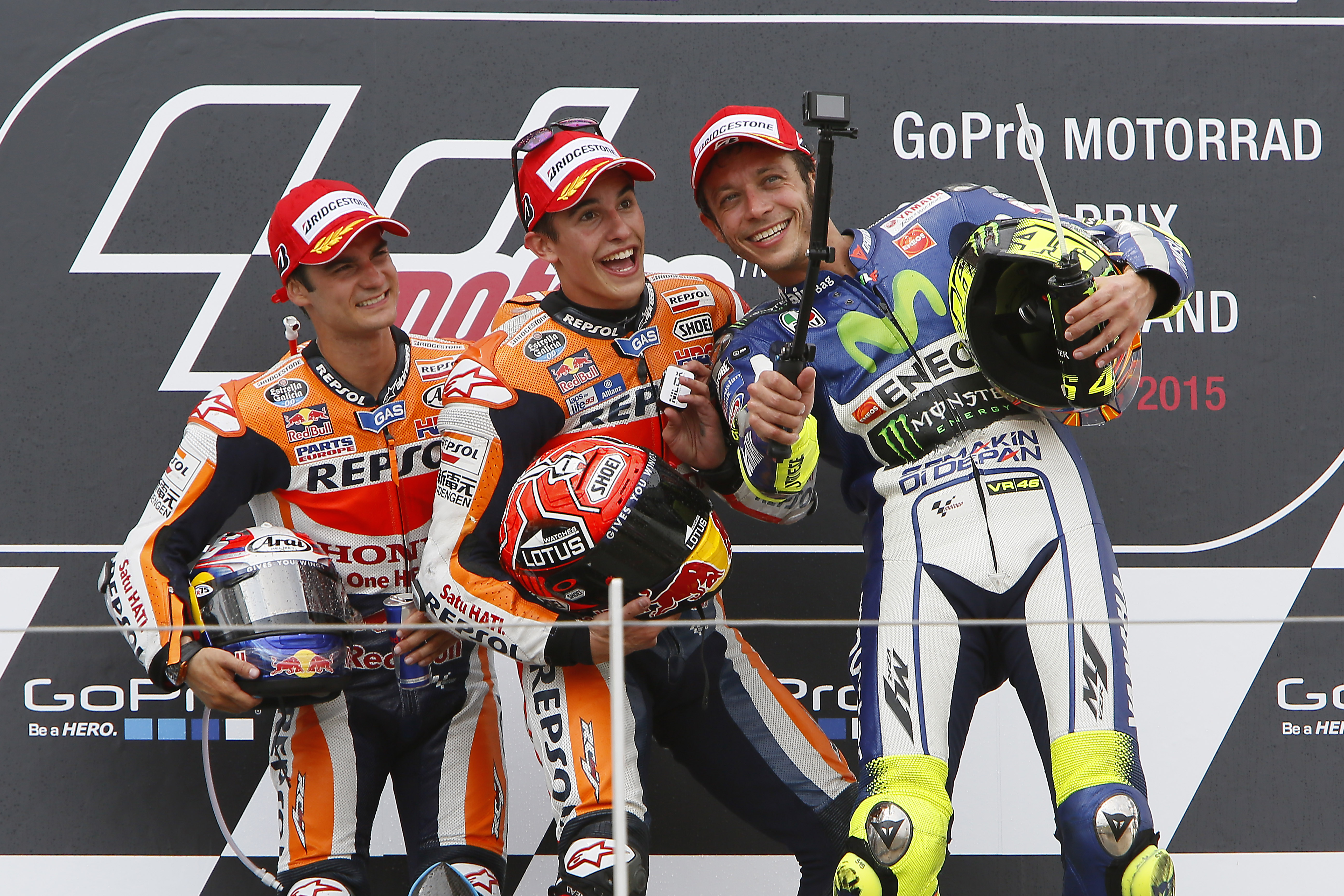 Dani Pedrosa, Marc Márquez and Valentino Rossi, taking a selfie and celebrating on the podium after finishing in second, first and third place at the 2015 German Grand Prix.